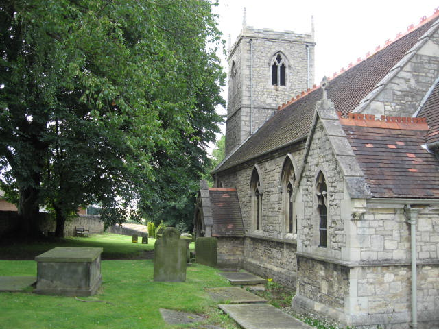 The south side of the parish church of St Michael and All Angels, Skelbrooke, South Yorkshire, seen from the east